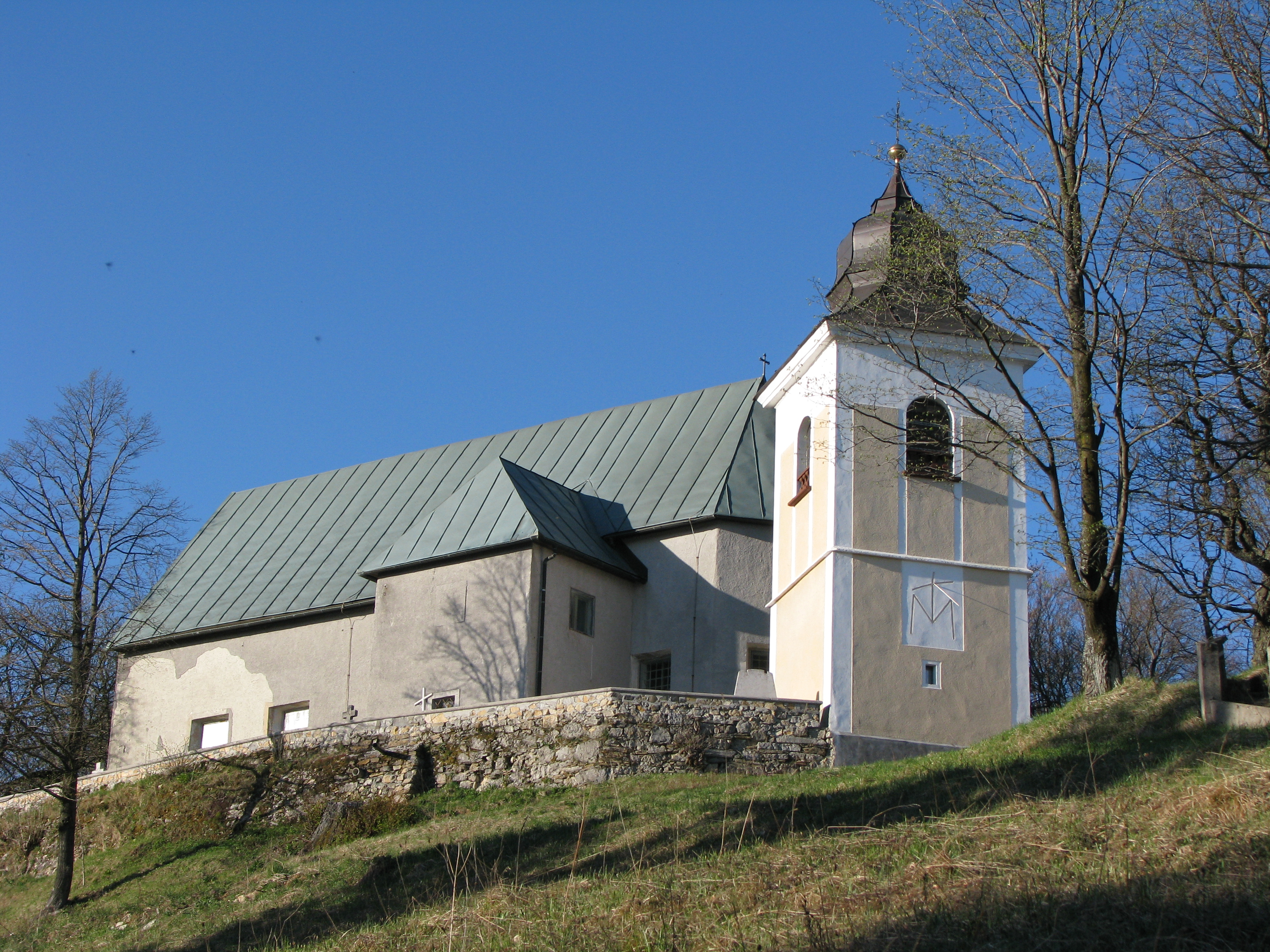 Holy Name of Mary church on Sveta Planina above Trbovlje.